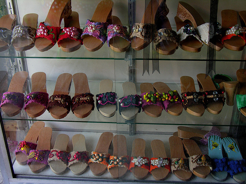 original description from Flickr: Mga Bakya Bakya, or wooden clog, is a traditional footwear Filipino women used to wear. I still remember my grandma wearing one of these, her steps making loud noises on concrete floors. I've worn these when I used to perform Philippine Folk Dances in school. It's sad that this little tradition is slowly dying...they'll probably stay as they are now..just on display behind glass cabinets!